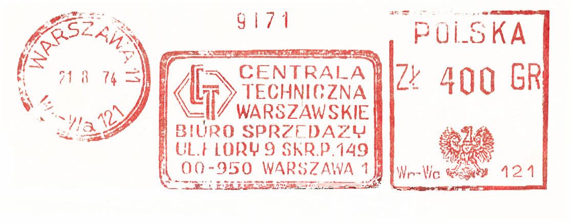 Meter stamp catalog image, Poland type GD1